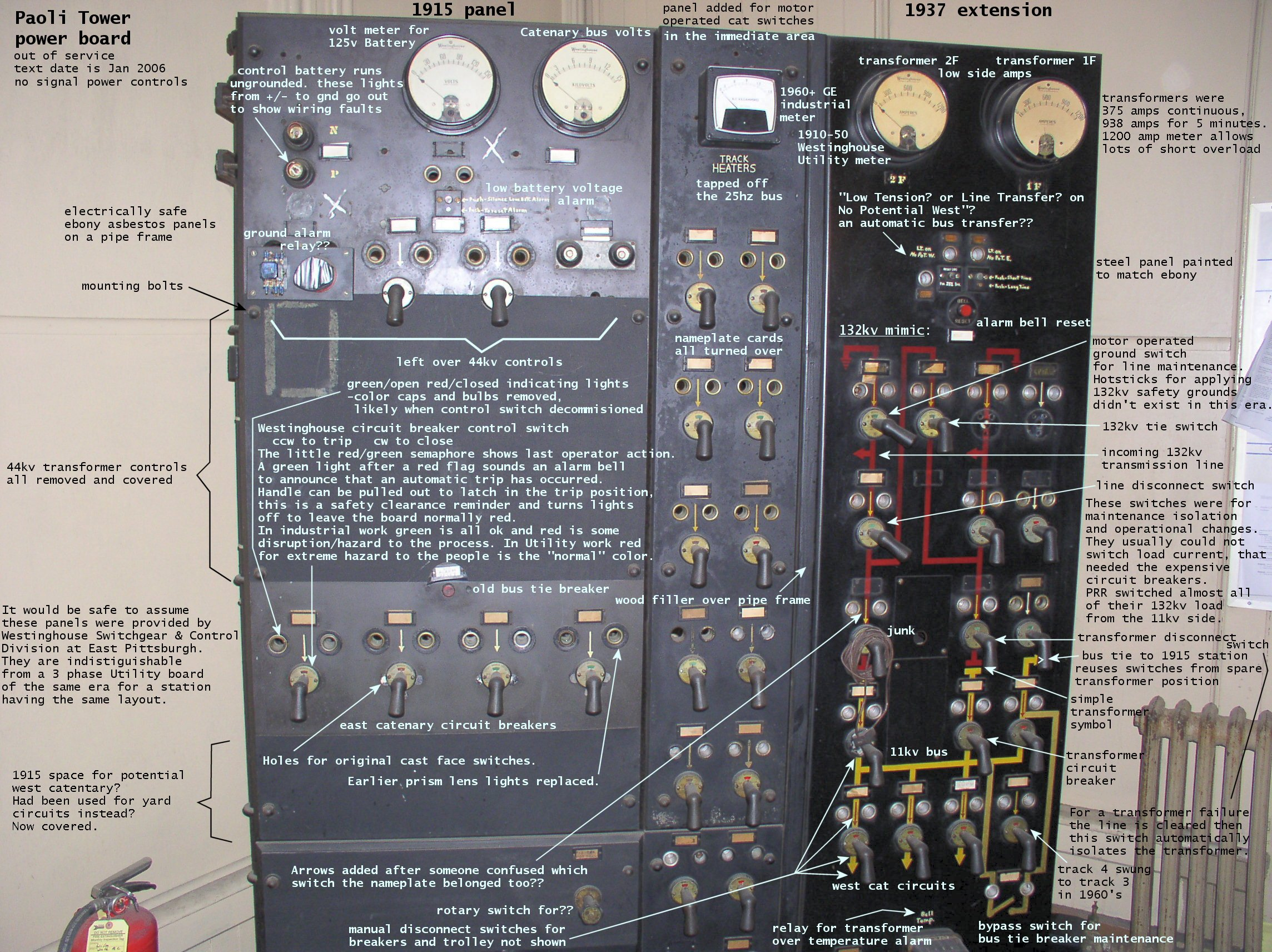 Old power board at Paoli interlocking tower on the PRR Main Line. The power board controlled both local catenary circuits as well as the high voltage switchgear for the 132Kv transmission lines and associated transformers. The presence of both 1915 and 1930's era equipment resulted in a rare local control setup. Marked the boundary between the original 1915 suburban electrification and the 1938 Main Line electrification to Harrisburg.